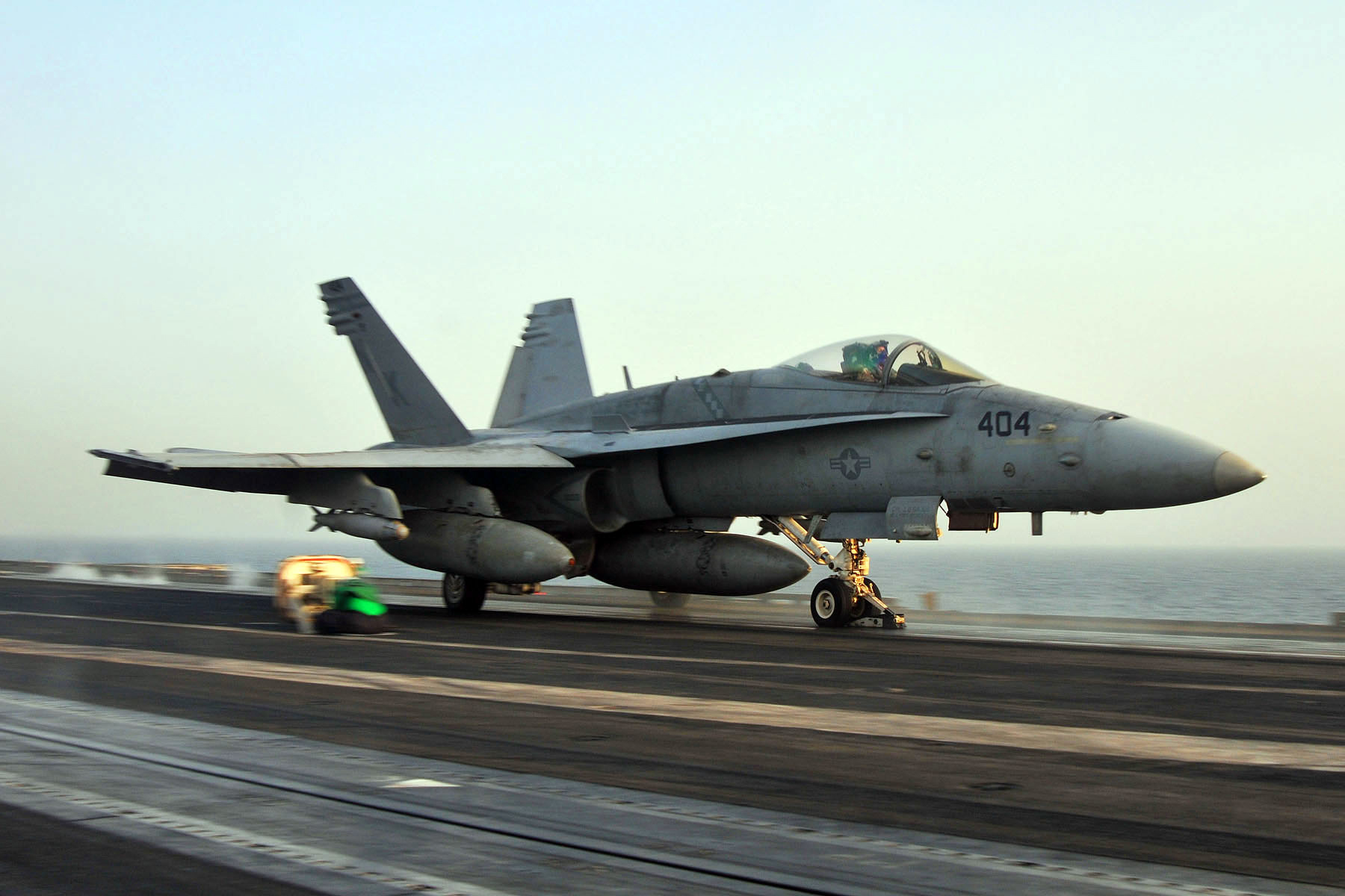 ARABIAN GULF (May 20, 2011) An F/A-18C assigned to the Death Rattlers of Marine Fighter Attack Squadron (VMFA) 323 catapults from the aircraft carrier Ronald Reagan (CVN 76). Ronald Reagan and Carrier Air Wing (CVW) 14 are deployed to the U.S. 5th Fleet area of responsibility conducting close-air support missions as part of Operations Enduring Freedom and New Dawn. (U.S. Navy photo by Mass Communication Specialist 3rd Class Shawn J. Stewart/Released)